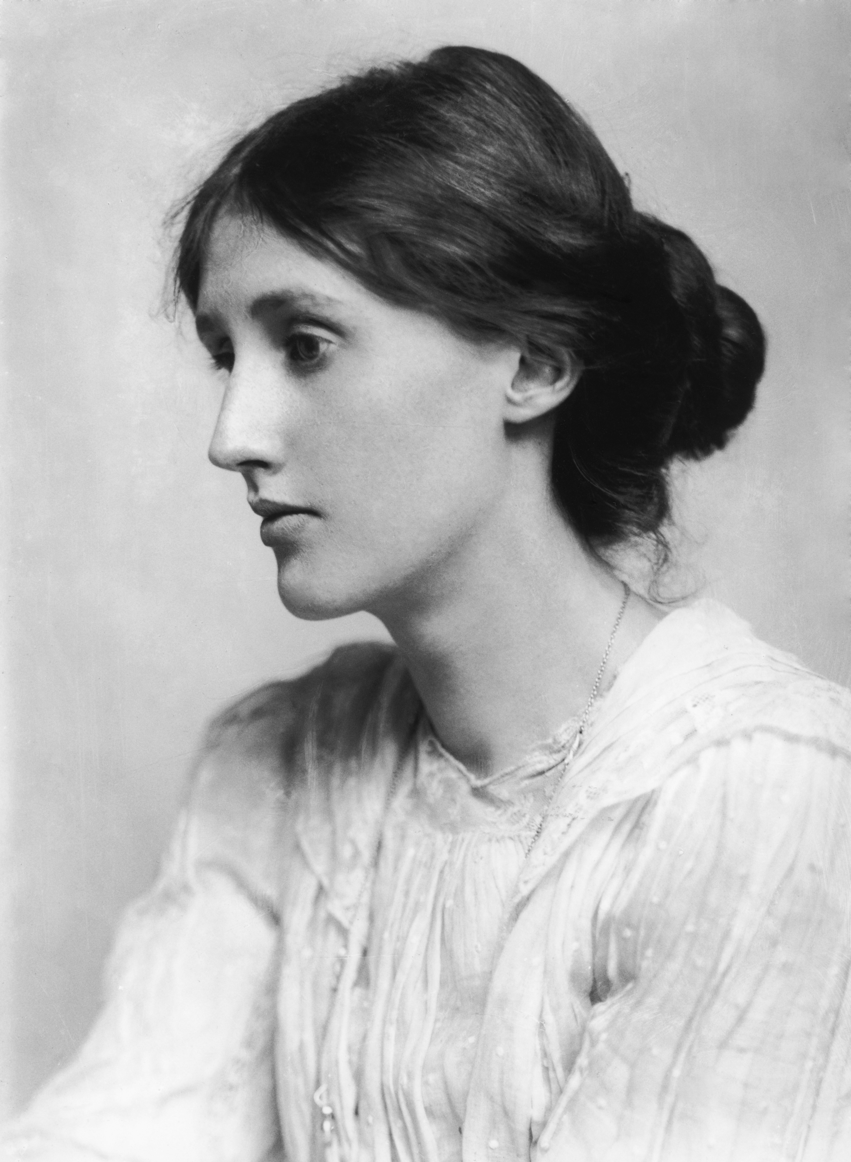 Portrait of Virginia Woolf (January 25, 1882 – March 28, 1941), a British author and feminist.